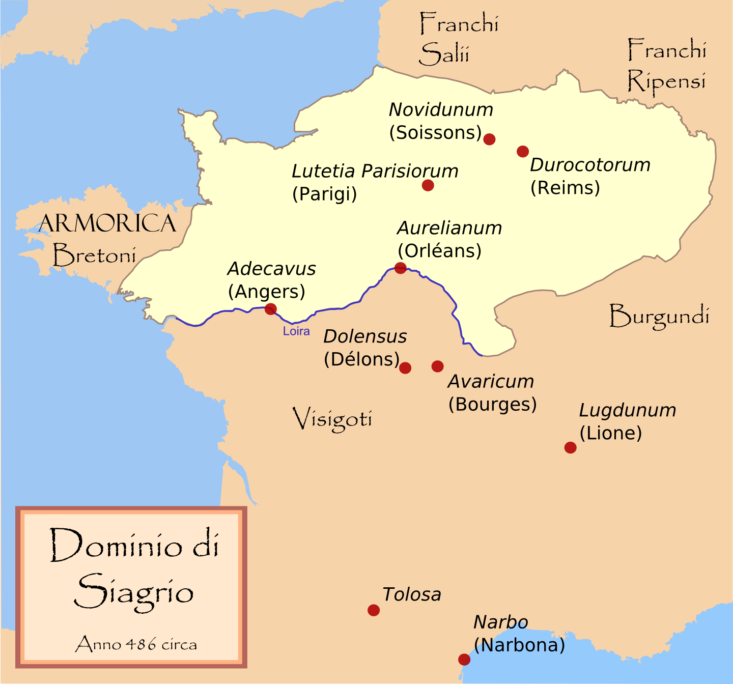 Map of breakaway kingdom of Roman general Syagrius, after barbarian invasions of Western Roman empire